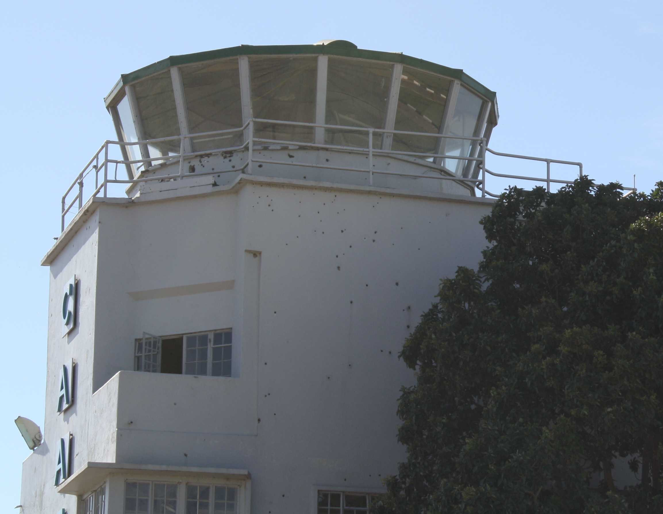 The old terminal building of the Entebbe International Airport. Photo was taken during Natural Fire 10, a multi-national, globally resourced military exercise focused on humanitarian assistance and disaster relief.